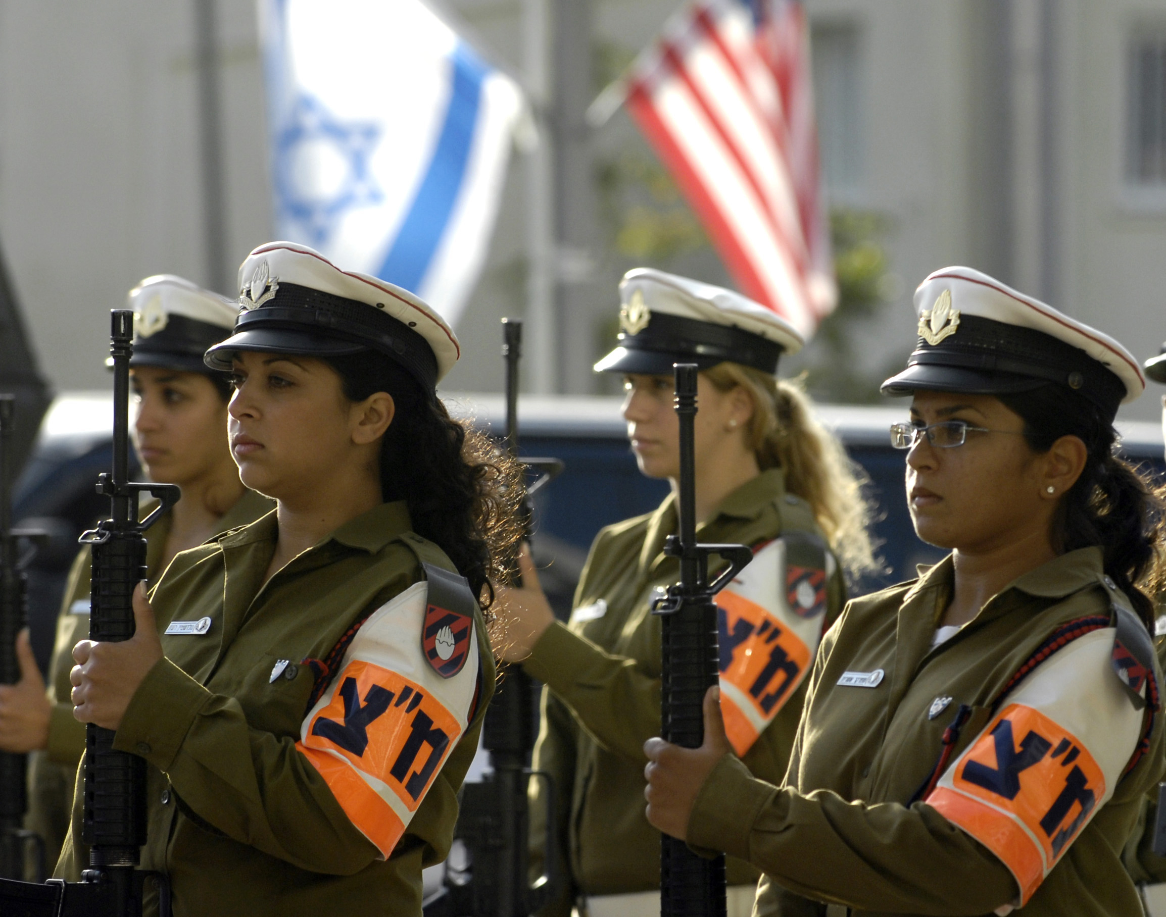 Israeli military police women stand in formation during an honor cordon ceremony for Secretary of Defense Robert M. Gates in Tel Aviv, Israel, April, 18, 2007. Gates is in Israel to meet with Israeli leaders including Prime Minister Ehud Olmert to discuss the M iddle East conflict.